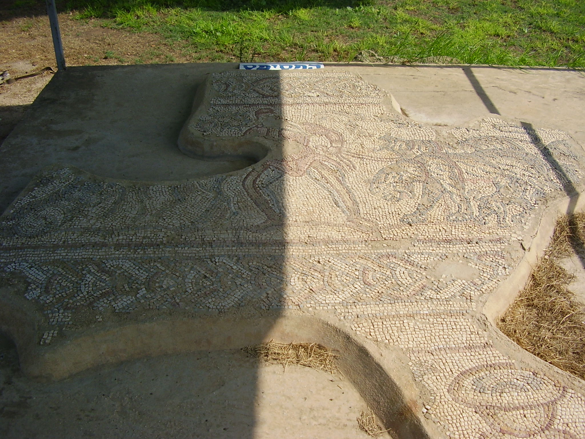 mosaic in kibbutz erez רצפת פסיפס בקיבוץ ארז